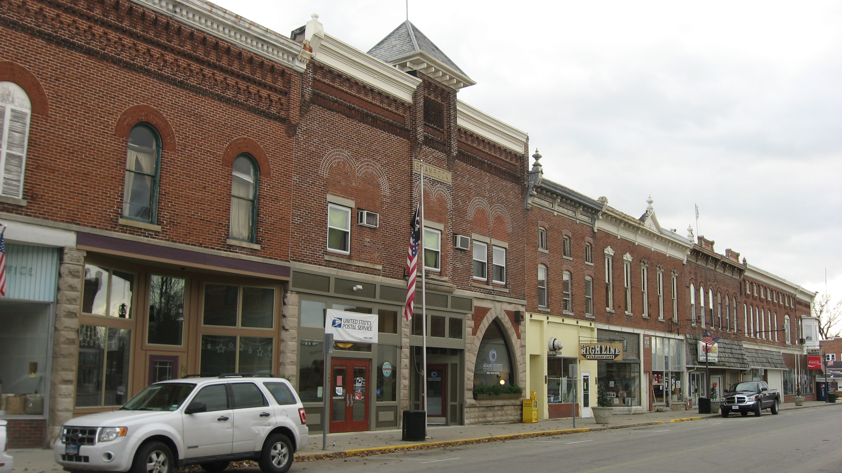 Buildings on the western end of the southern side of the 400 block of E. Line Street in Geneva, Indiana, United States. The buildings are as follows: 416, built 1885, Romanesque Revival: Charles B. Porter Drugstore 408, built 1885, Romanesque Revival: Shamrock Block, including post office 406, undated, Italianate: Highline Restaurant 340, built 1882, Italianate: Briggs Hardware Building 332-334, built 1890, Romanesque Revival: Aspy & Miller/Rayn Building 310, built 1898, Italianate 304, built 1898, Italianate This block is part of the Geneva Downtown Commercial Historic District, a historic district that is listed on the National Register of Historic Places.